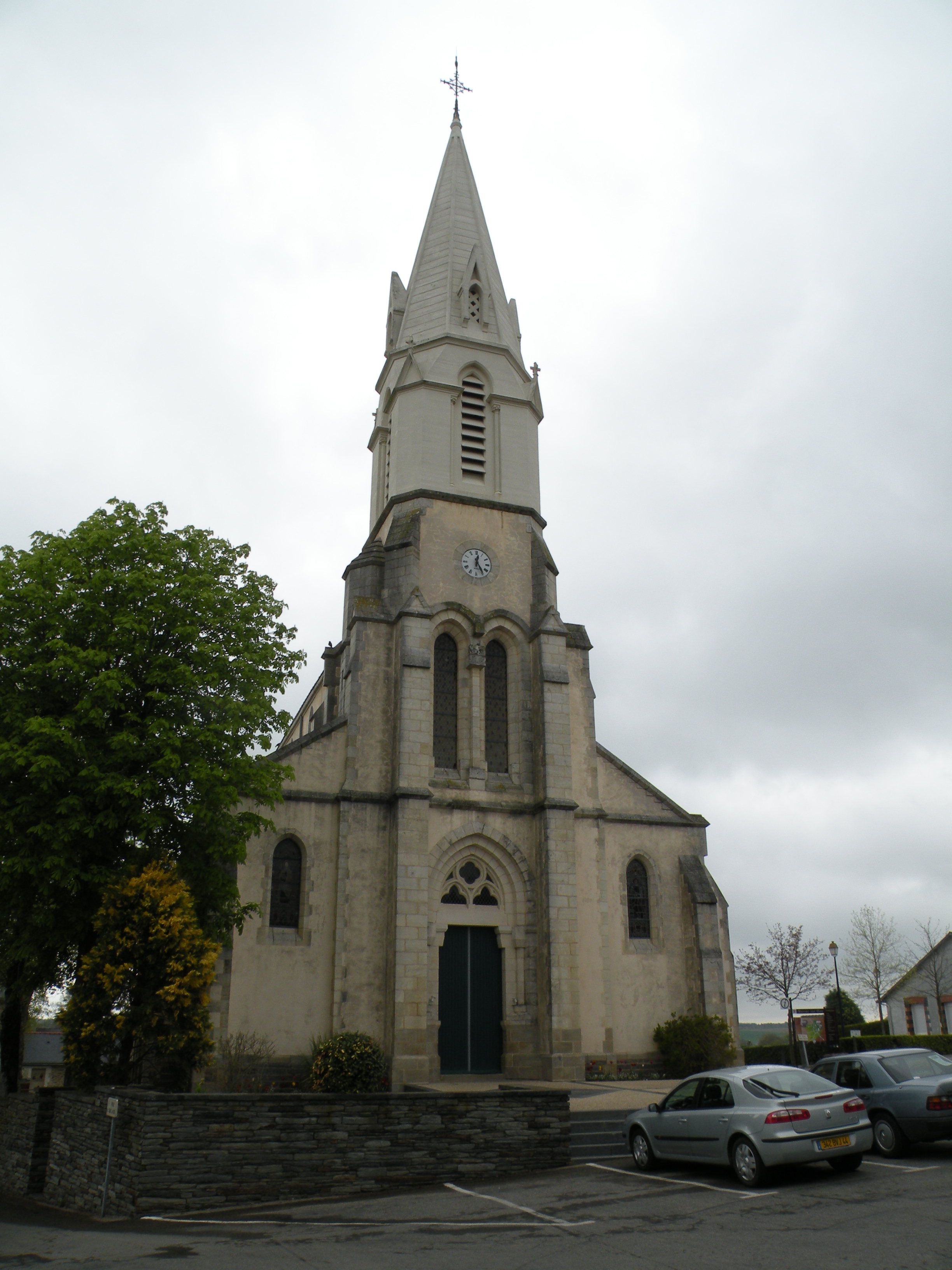 Church of Marsac-sur-Don